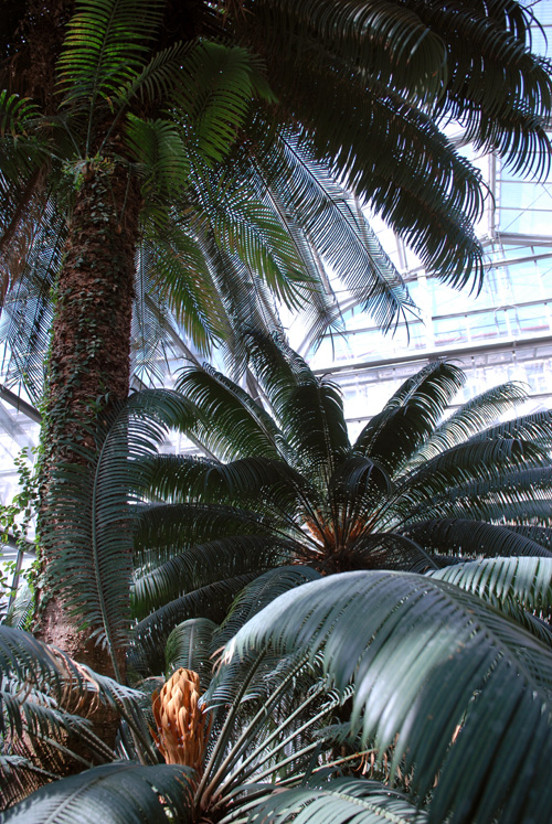 200 Years Old female Cycas circinalis at Na Slupi - University Botanical Garden in Prague, group of 3 female plants with female megasporophyls visible in the foreground